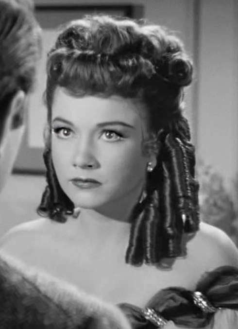 Cropped screenshot of Anne Baxter from All About Eve.